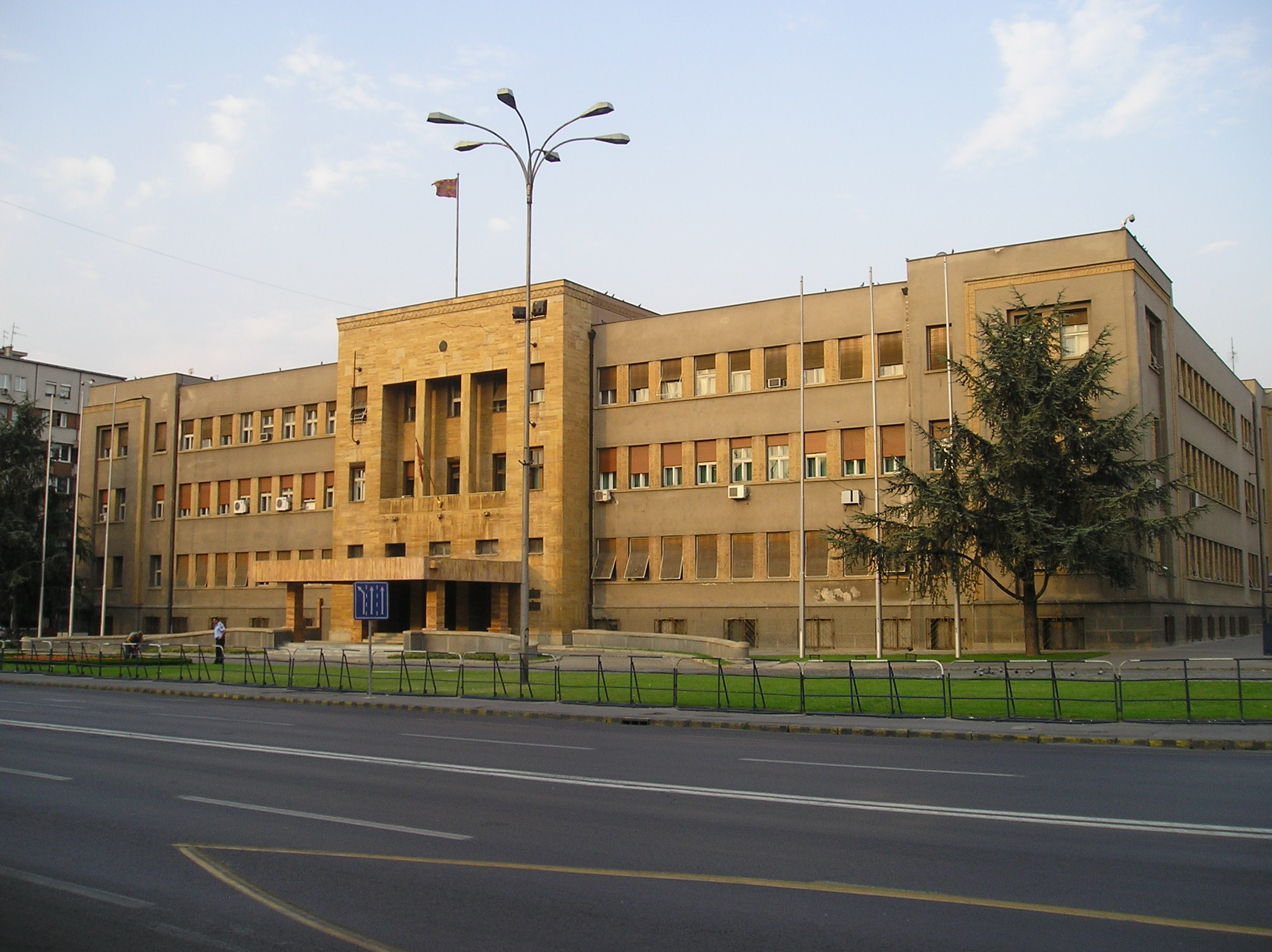 Assembly of the Republic of Macedonia, Macedonia